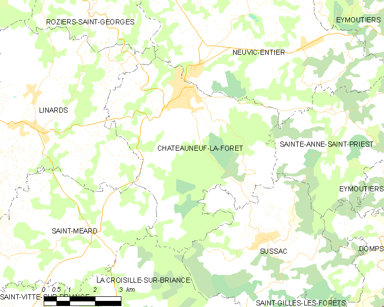 Map of French municipality Châteauneuf-la-Forêt